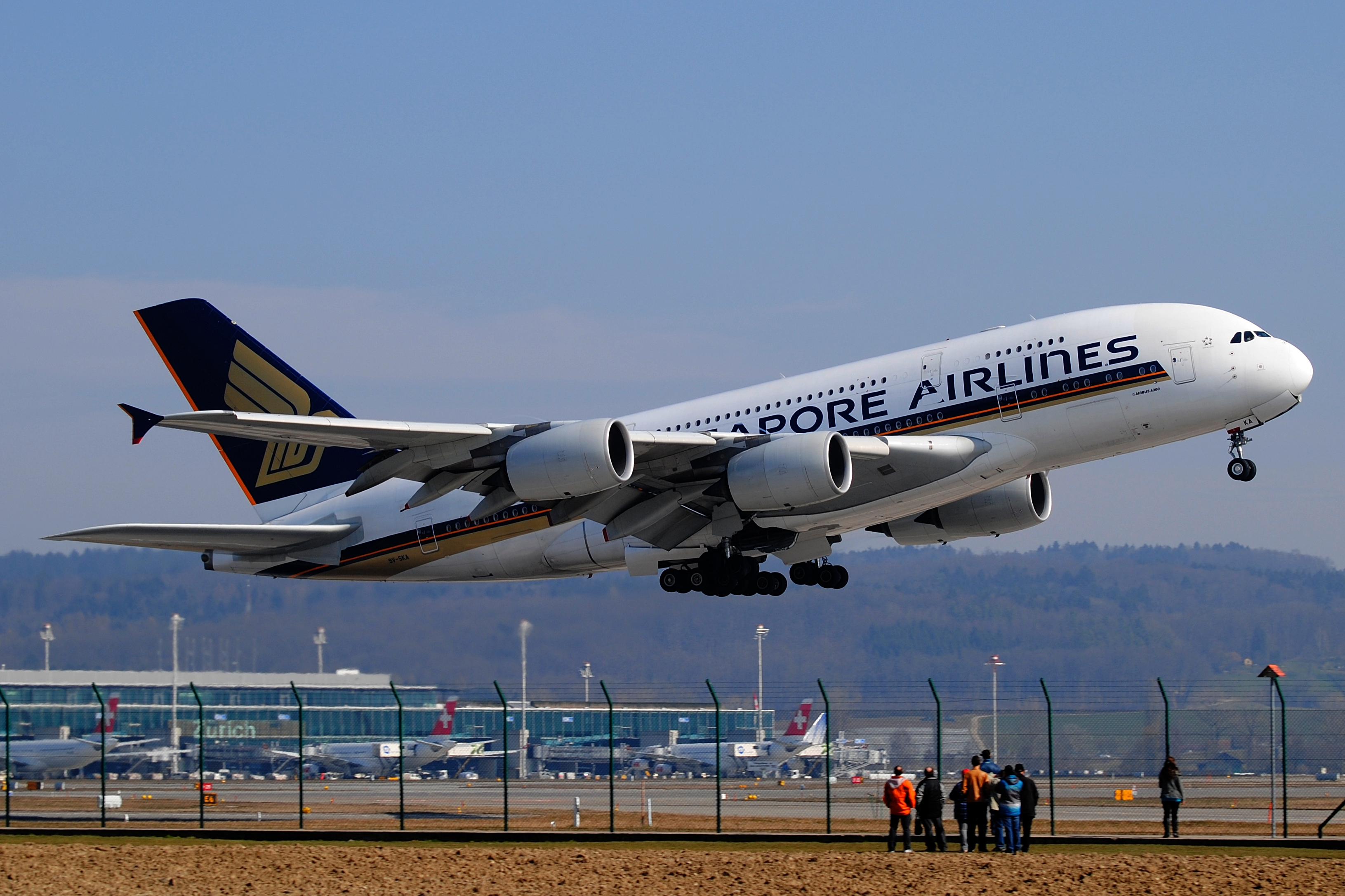 Airbus A380 from Singapore Airlines